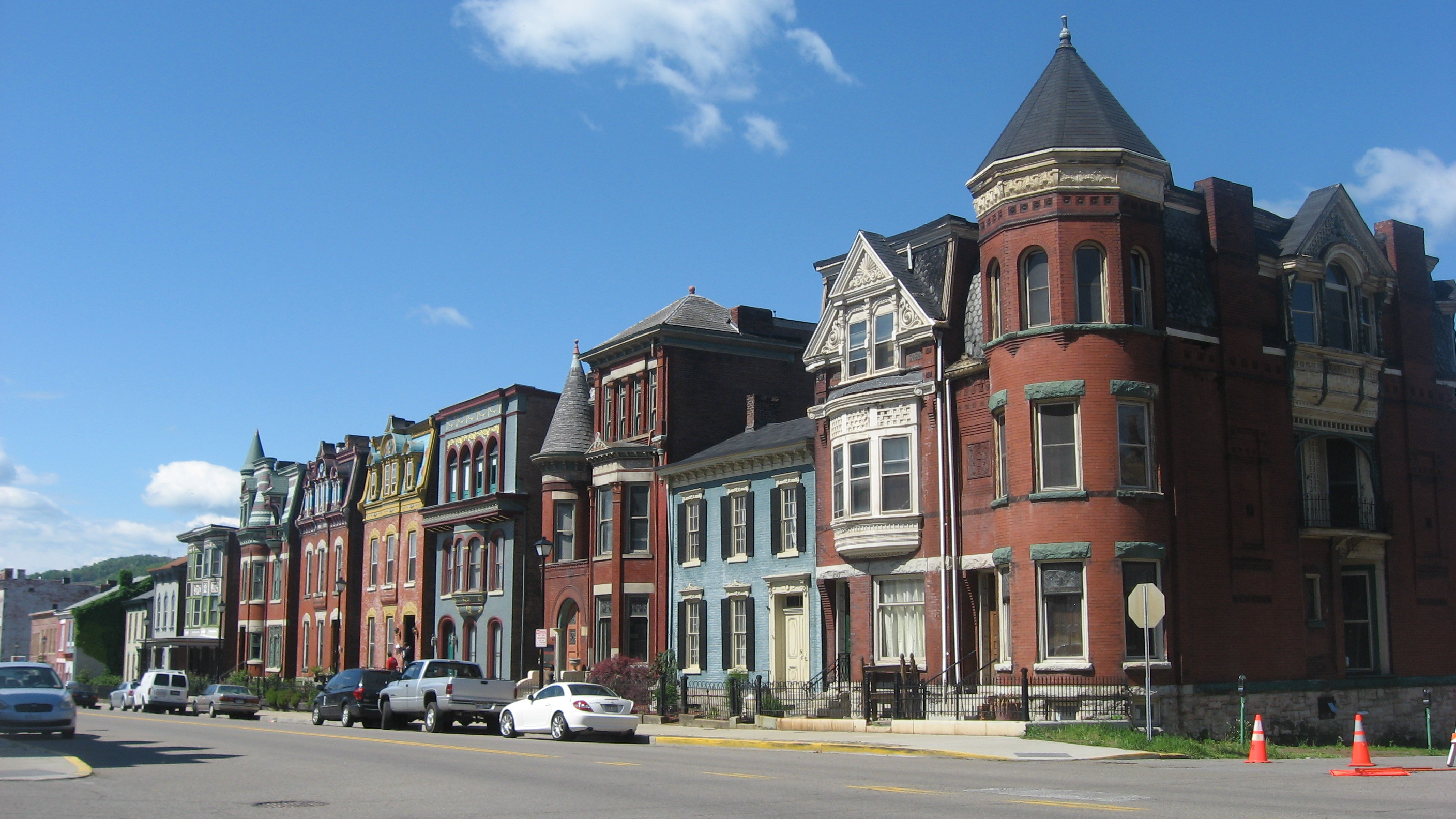 Front of the Chapline Street Row Historic District, located at 2301-2323 Chapline Street in Wheeling, West Virginia, United States. Composed of buildings built in 1853, the historic district is listed on the National Register of Historic Places.